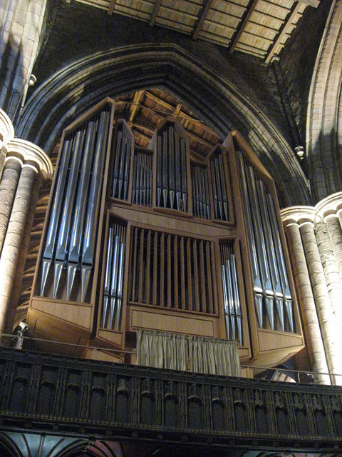 The organ, Hexham Abbey. For a view of the organ from the west end of the nave, see 731496.